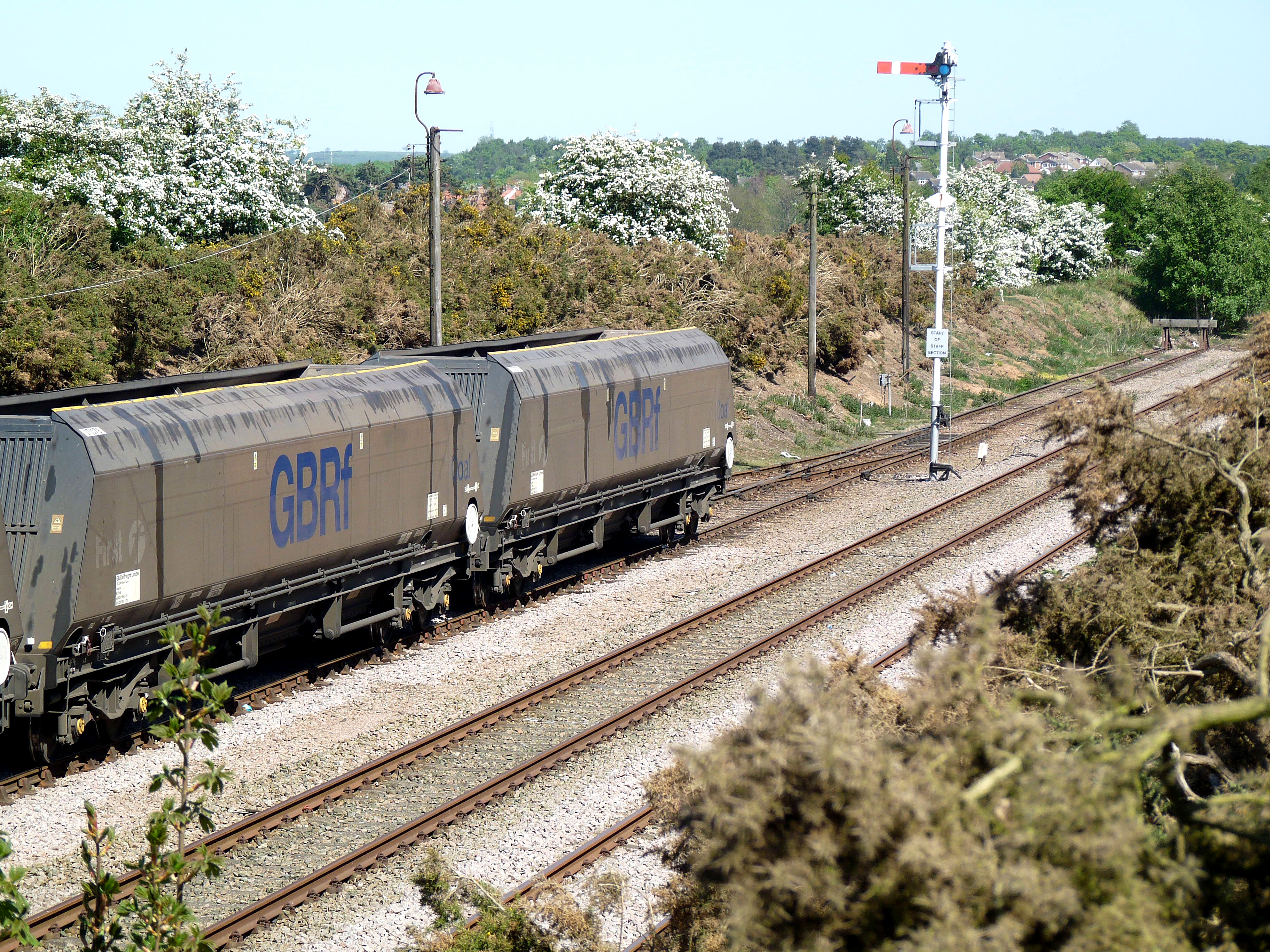 Thoresby Colliery Junction A stop signal has a red arm with vertical white stripe towards the left-hand end. It shows a red light when on and a green light when off. Trains must not pass stop signals when on The route from here to High Marnham is now used by test trains that will be trialling new technology and for testing purposes, this will include ballast cleaning, track laying, new welding technology and testing new rail mounted plant equipment. The white diamond plate on the post is a "Rule 55 exemption" plate. It indicates that there is some sort of train detection equipment on the track the signal applies to, and therefore the train crew do not need to visit the signalbox if they are held at the signal. The sign on the signalpole indicates the start of the test track with "START OF STAFF SECTION".